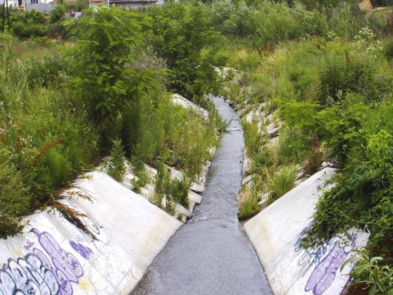 Mirijevski potok (Mirijevo Creek) in eastern neighbourhood of Belgrade, Serbia, right after leaving underground chanel. Srpskohrvatski / српскохрватски: Mirijevski potok u Beogradu, odmah nakon izlaska iz podzemnog toka.